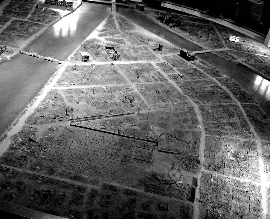 Small-scale recreation of the Nakajima area around ground zero, Hiroshima, Hiroshima Peace Memorial Museum